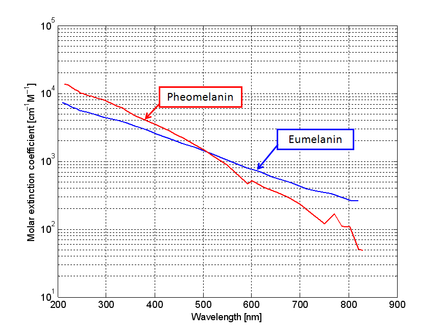 The molar extinction coefficients of eumelanin and pheomelanin